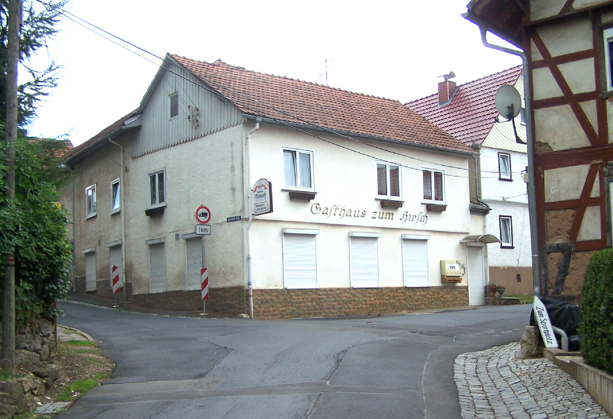 In Eckardtshausen village.